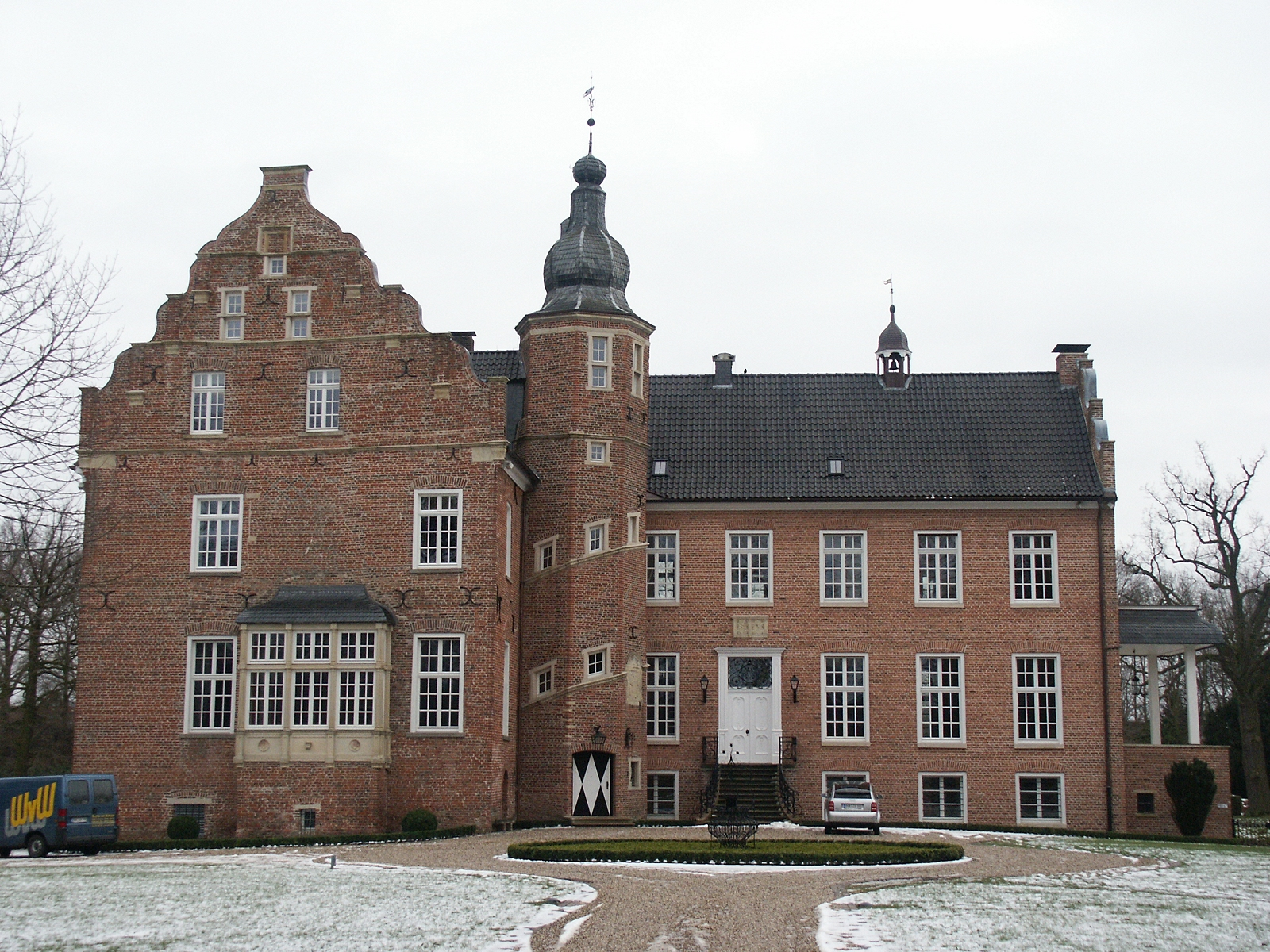 Castle in Rhede, Germany